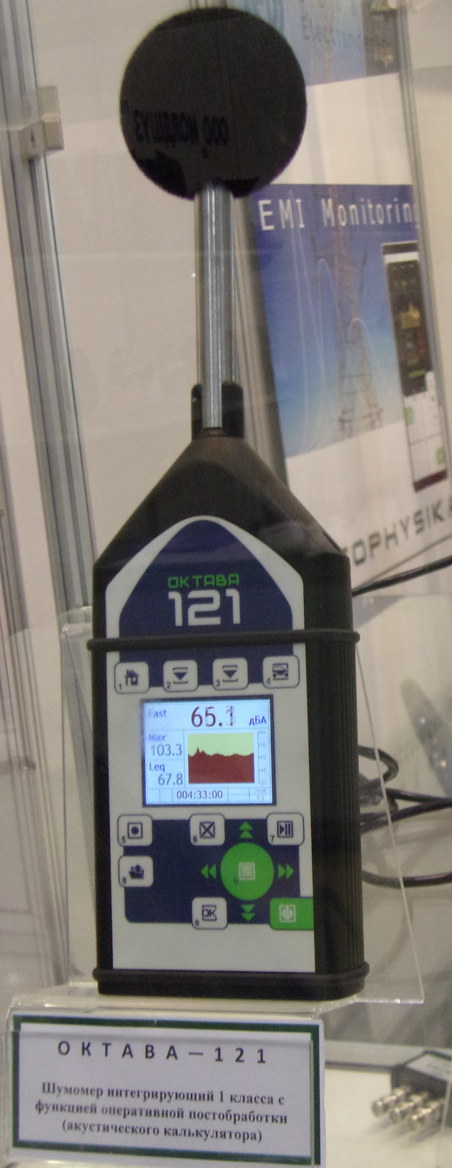 Measuring devices. Sound Level Meter, is used to assess the working conditions at the workplace.